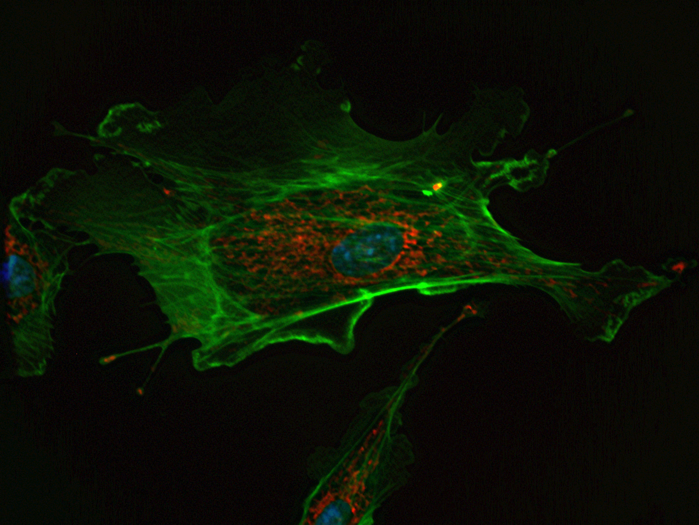 Fluorescent stained Bovine Pulmonary Artery Endothelial (BPAE) cells; mitochondria stained with red-fluorescent MitoTracker Red; F-actin stained with green-fluorescent Alexa Fluor 488; nuclei stained with blue-fluorescent DAPI. Image shot on Zeiss AxioImager fluorescent microscope, 3-channel RGB color merged in ImageJ over DIC image.